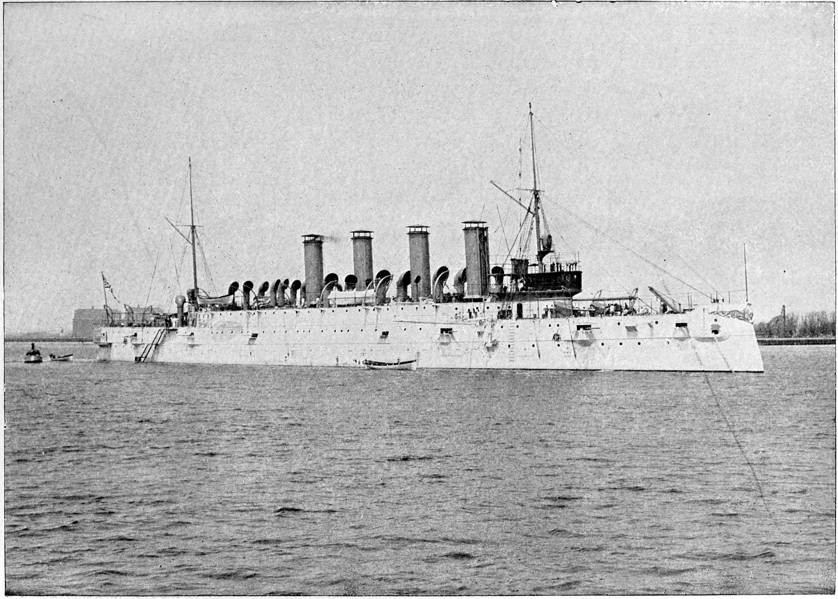 Identifier: ourgreatercountr00nort Title: Our greater country; being a standard history of the United States from the discovery of the American continent to the present time .. Year: 1901 (1900s) Authors: Northrop, Henry Davenport, 1836-1909 Subjects: Publisher: Philadelphia, National pub co. View Book Page: Book Viewer About This Book: Catalog Entry View All Images: All Images From Book Click here to view book online to see this illustration in context in a browseable online version of this book. Text Appearing Before Image: erfere with such laws would be to illegallytrespass upon the reserved rights of theStates. They held, therefore, that as theaction of the Return Boards was within theletter of the laws of their respective States,Florida and Louisiana must be counted foiHayes. The Country Agitated. The Democrats, on the other hand, main*tained that the popular majority for Tilden inFlorida and Louisiana was too evident to bedoubted, being simply overwhelming in thelatter State, -^nd :hat the Return Boards hadovercome these majorities only by a fraudu^lent use of their powers in throwing outDemocratic votes to an extent sufficient togive Florida and Louisiana to the Republi-cans. They declared, moreover, that, as theLouisiana Board had refused to appoint aDemocratic member to the vacancy in thatbody, as required by the law under whichthey acted, their action was necessarily ille-gal. They held that, as both Florida andLouisiana had been wrongfully and fraudu-lently given to the Republicans by the Return Text Appearing After Image: '